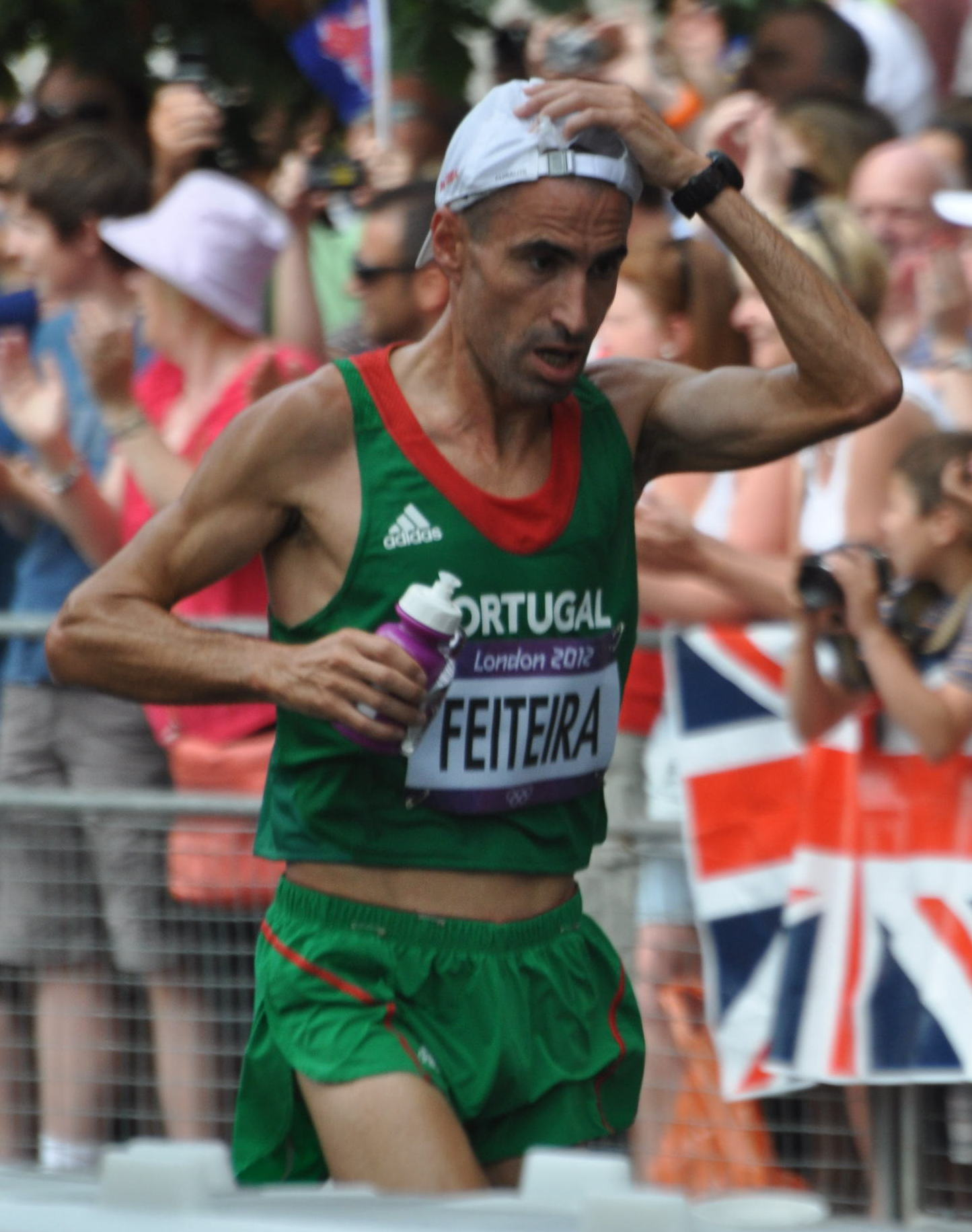 The men's marathon of the 2012 Summer Olympics in London, UK took place on an Olympic marathon street course on Sunday 12th August 2012 at 11:00. This was the final day of the 30th Olympic Games. The London 2012 marathon course is the standard Olympic distance of 26 miles 385 yards and consists of one short lap of approx 2.2 miles followed by three longer laps of 8 miles. The course began on The Mall and travelled past several of the most famous London landmarks. The start/finish line was near the Victoria Memorial. These photographs were taken at the Victoria Embankment. This featured several times on the looped course. The approximate location from the photographs is shown in the Google StreetView Link below. Stephen Kiprotich won in 2 hours, 8 minutes, 1 second as he pulled away from the Kenyan duo of Abel Kirui and Wilson Kiprotich Kipsang. These photographs are unofficial photographs. They are not endorsed by London 2012. There are not commercially available. They are available for use under a Creative Commons License. Please link back to the photograph on my Flickr account if you use the image.